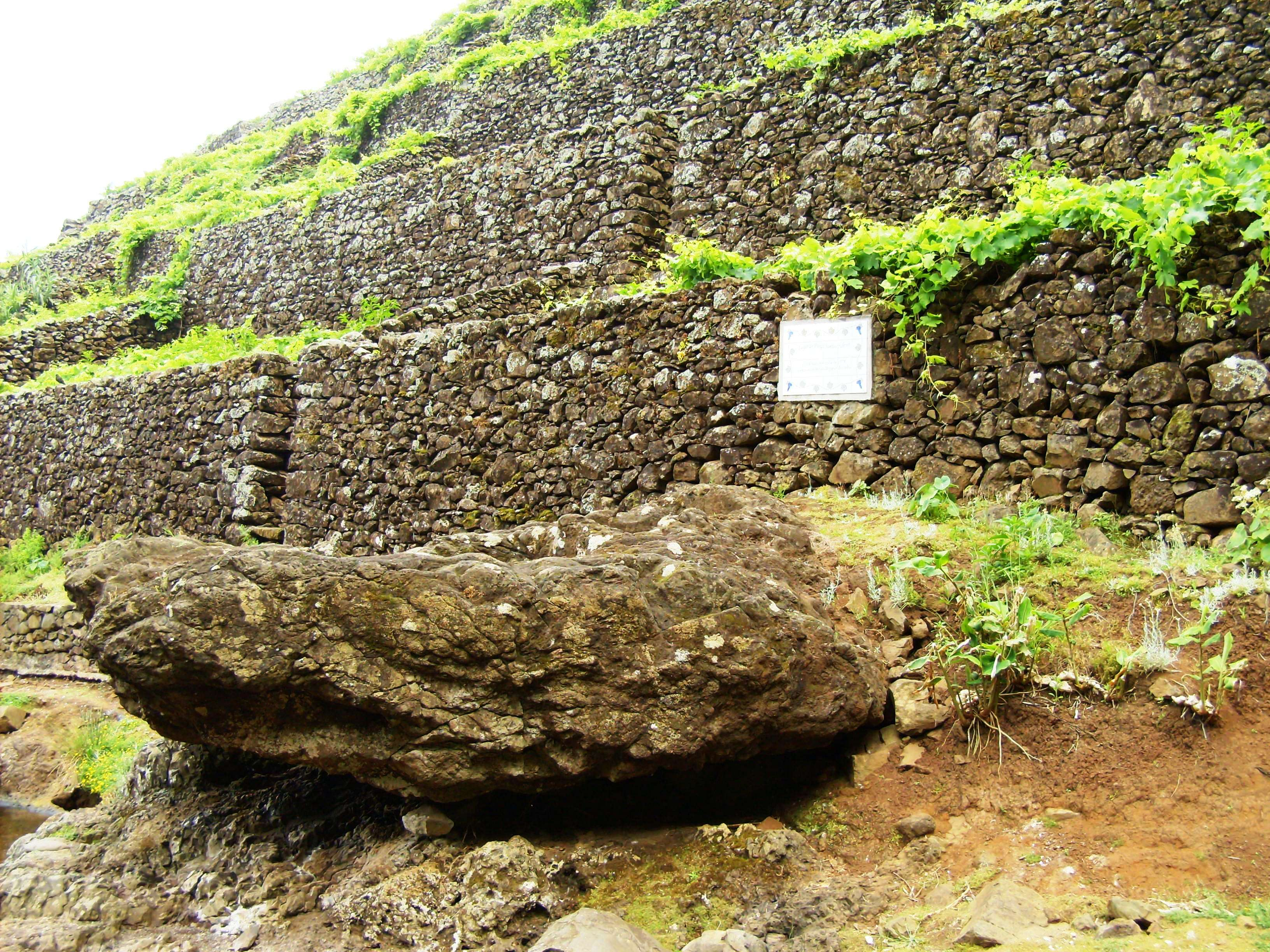 The medieval rock "Lagar de Diogo Santos Faleiro", a wine vat/press in Maia, civil parish of Santo Espírito, municipality of Vila do Porto (Azores), Portugal